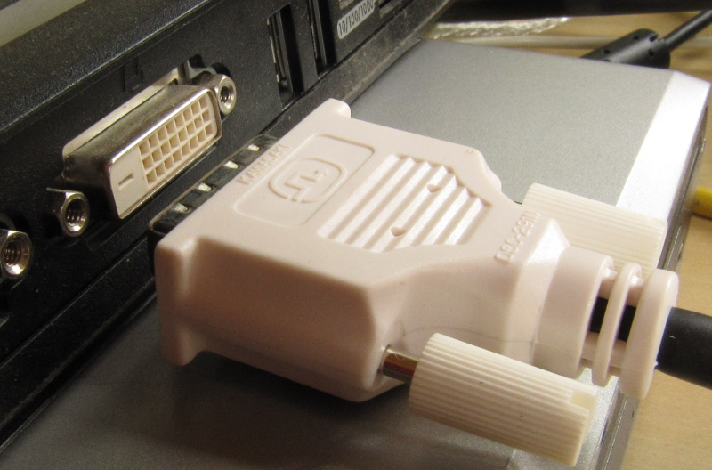 DVI-jack and connector